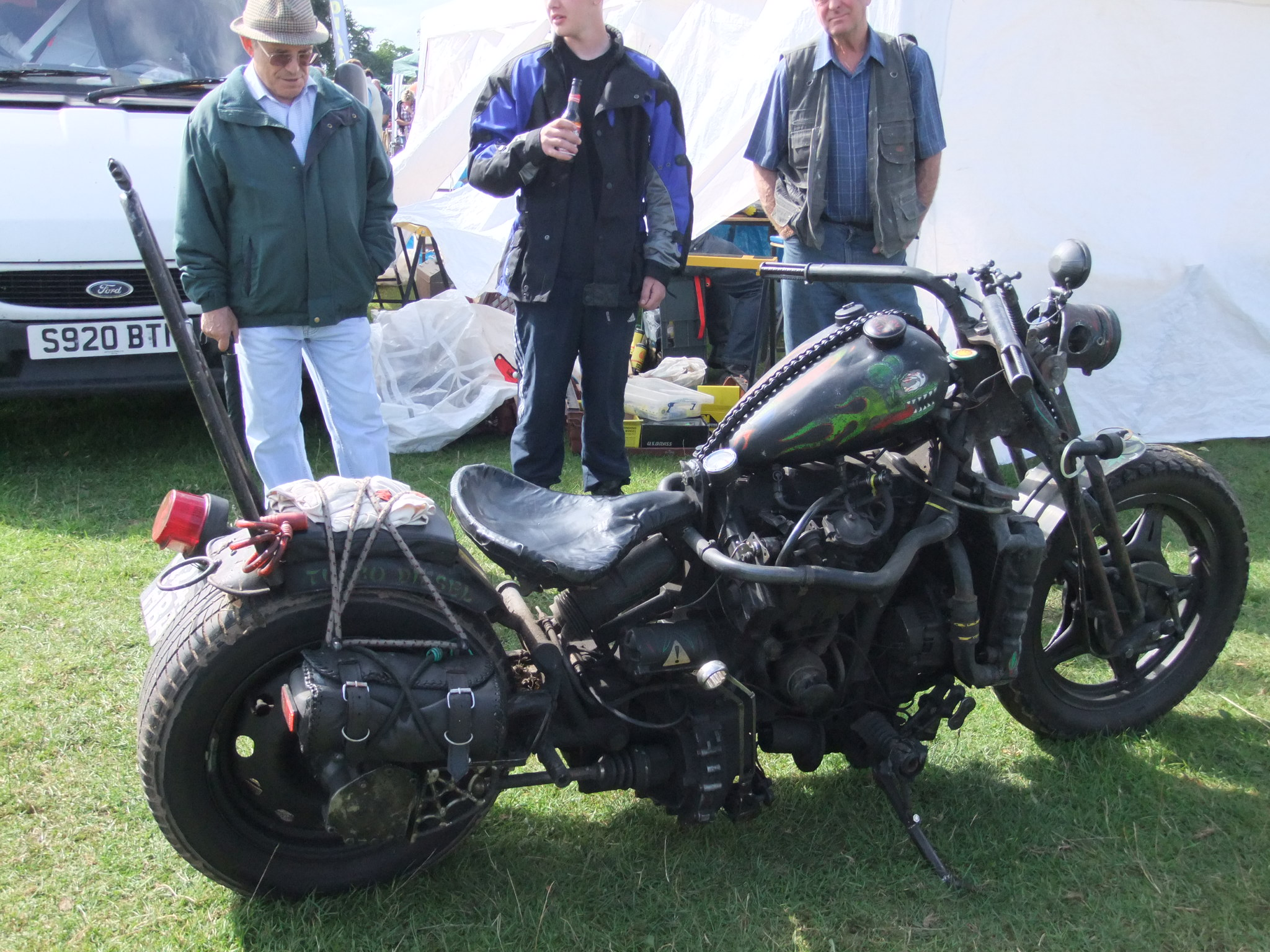 Home-made diesel motorcycle at traction engine rally at Astle Park, a little south of Chelford, Cheshire, England, 14 August 2010